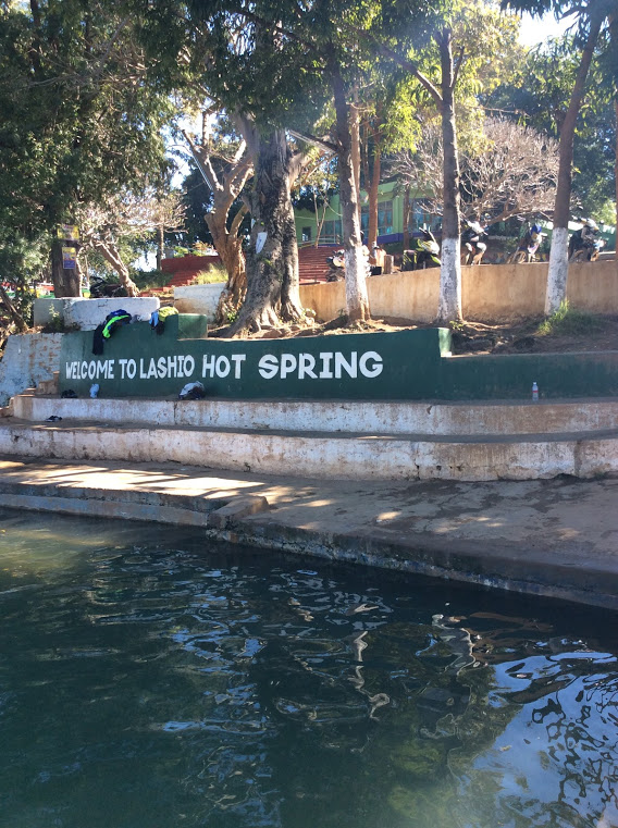 Lashio Hot Spring, Lashio, Shan State, Myanmar